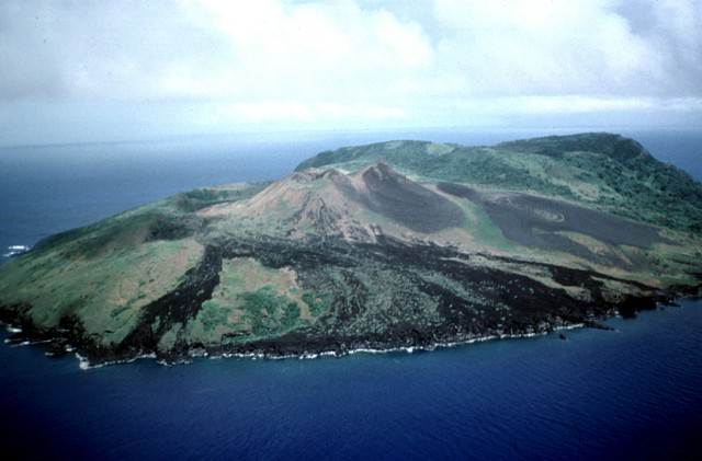 The small island of Guguan (Northern Mariana Islands) in an aerial view from the NW.